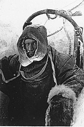 Bertram Armytage (1869-1910), member of the British Antarctic Expedition (a.k.a. Nimrod-Expedition 1907-1909) emerges from an exploratory shaft dug into one of Cape Royds' frozen lakes.